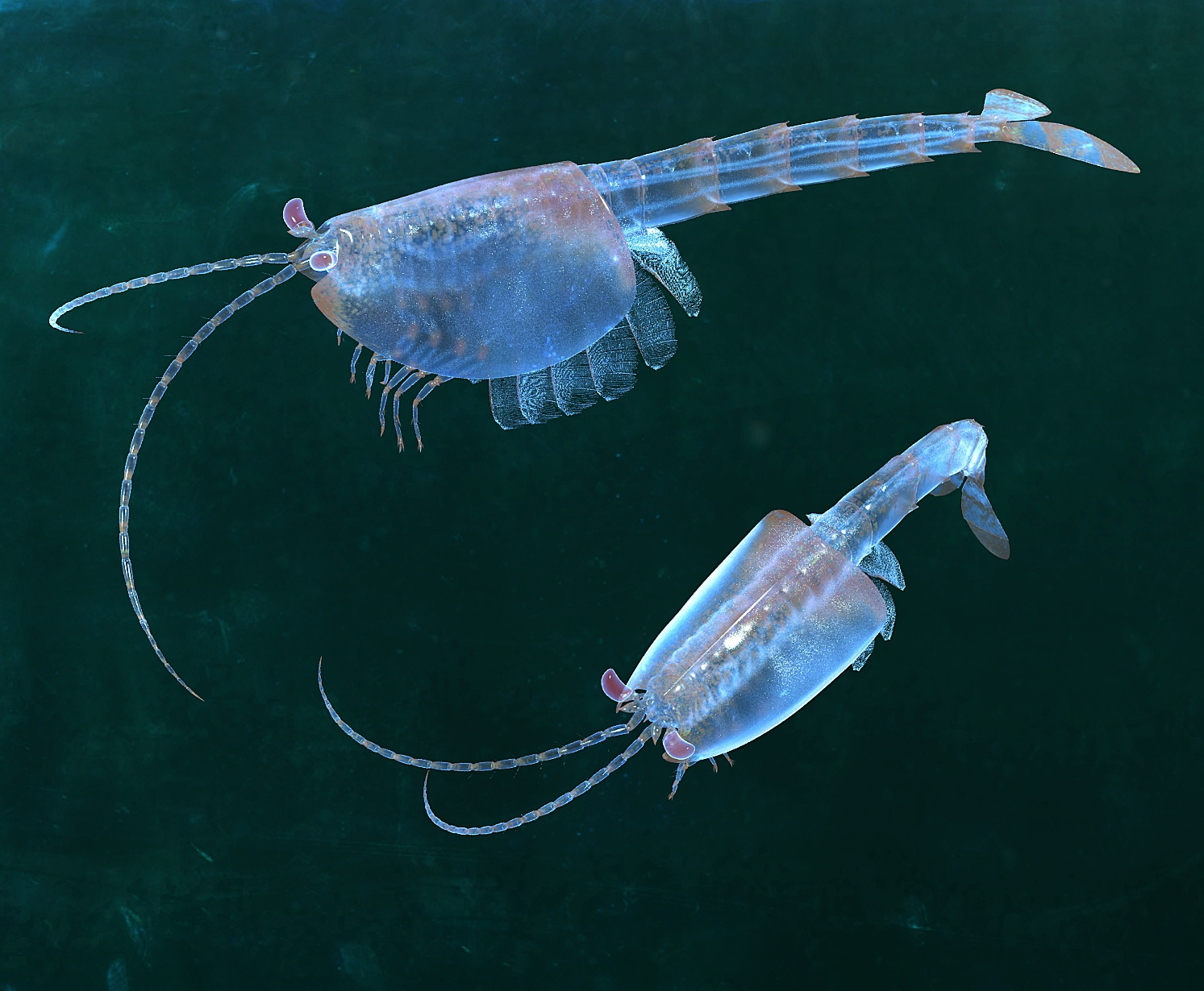 Restoration of Burgess Shale fossil arthropod Waptia fieldensis Walcott, 1912